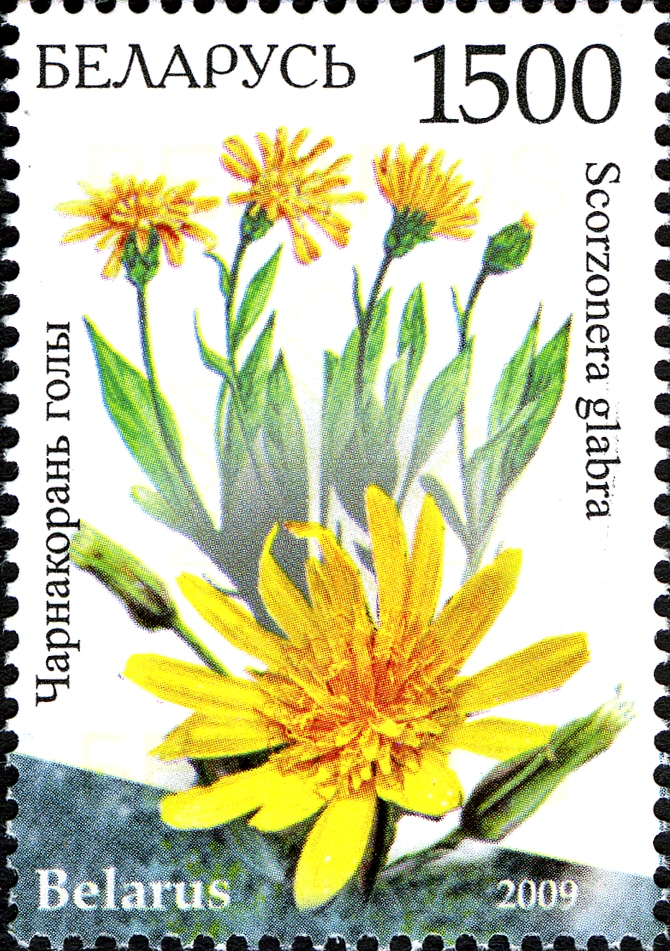 Stamp of Belarus